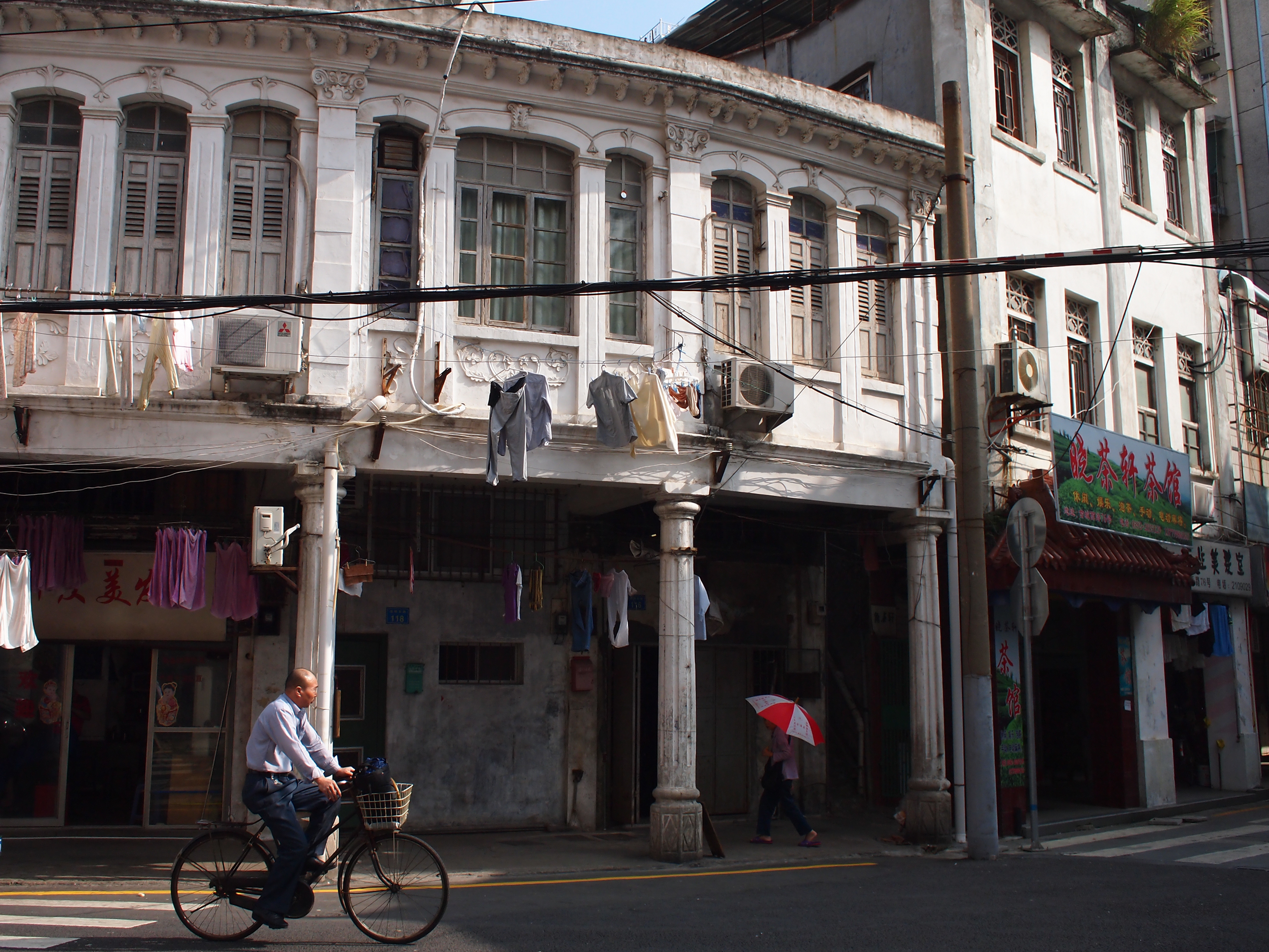 Streets of Xiamen, People's Republic of China, East Asia.